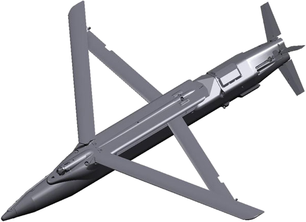 GBU-39 Small Diameter Bombs in flight, U.S. Air Force